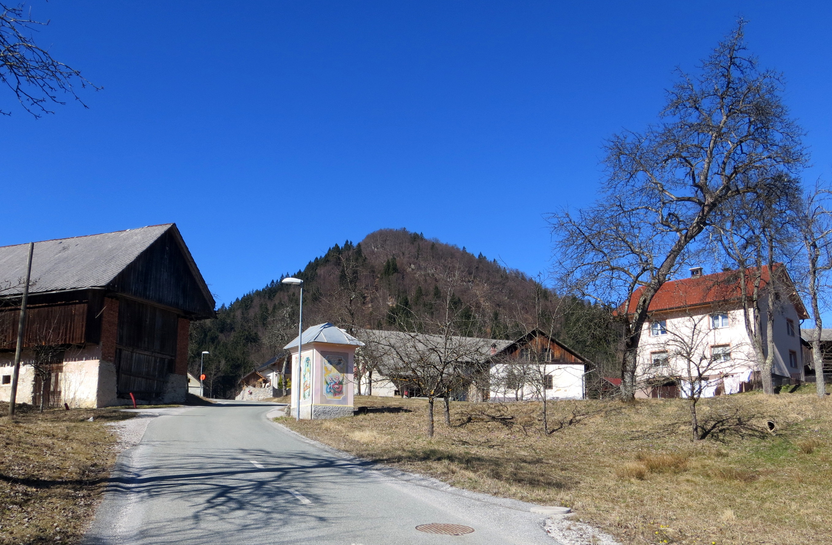 Njivica, Municipality of Kranj, Slovenia